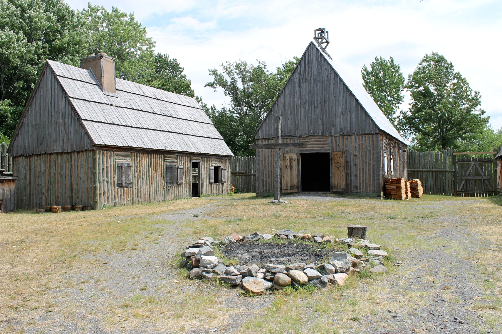 The mission meeting house/chapel with kitchens and carpentry workshop to the left (to left upon entering main gate).